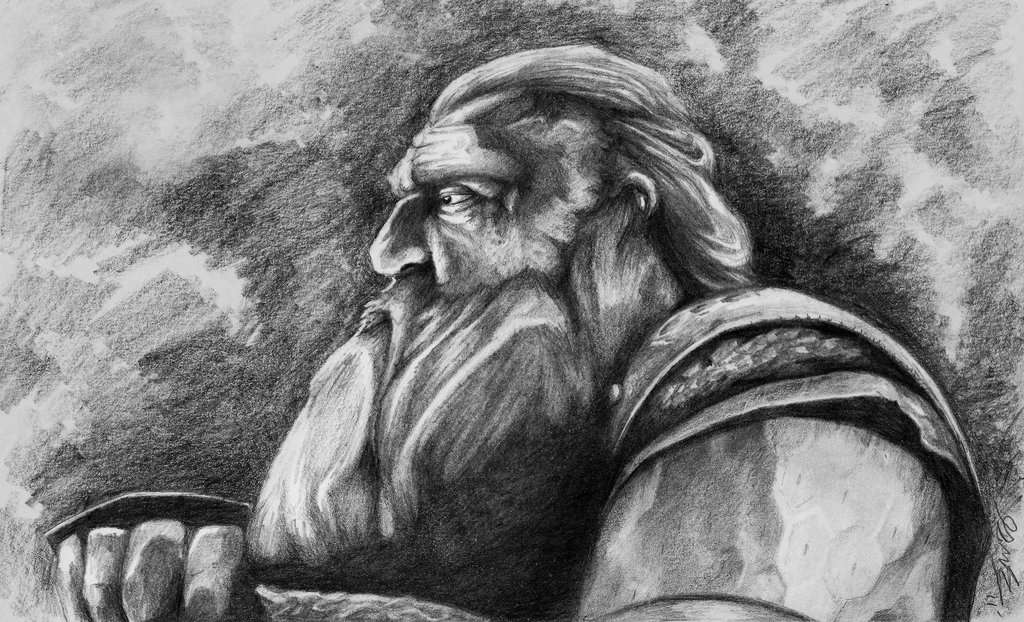 Gimli son of Gloin by Perrie Nicholas Smith .